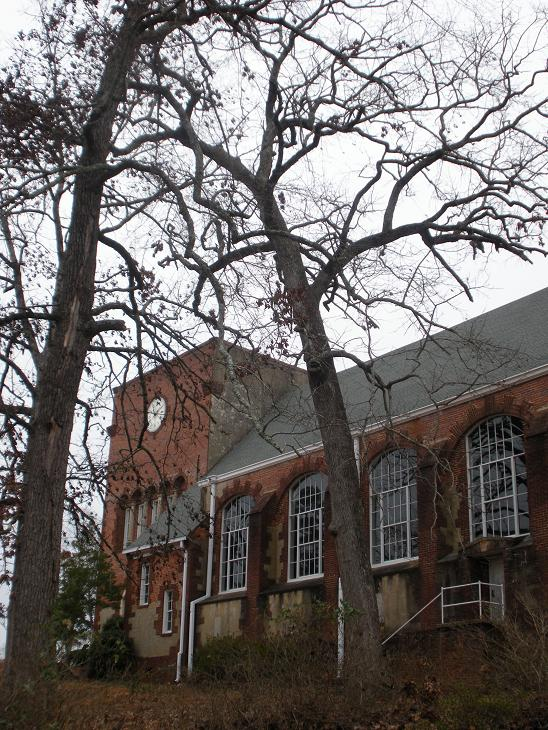 This is a picture of Lyman Ward Military Academy in Camp Hill, Alabama